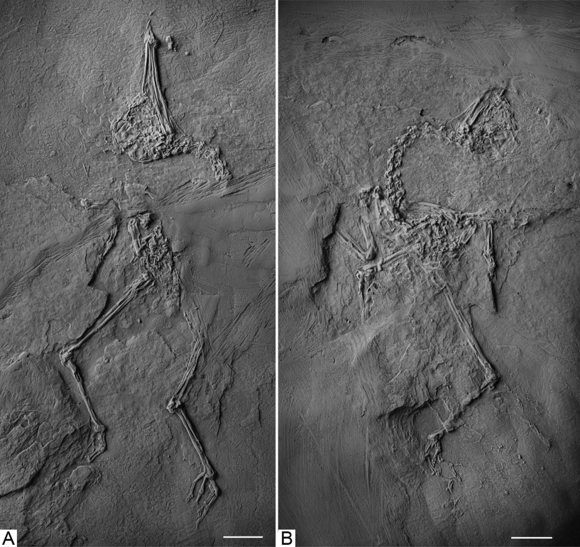 2 fossil samples of the Vanolimicola of Messel, Germany